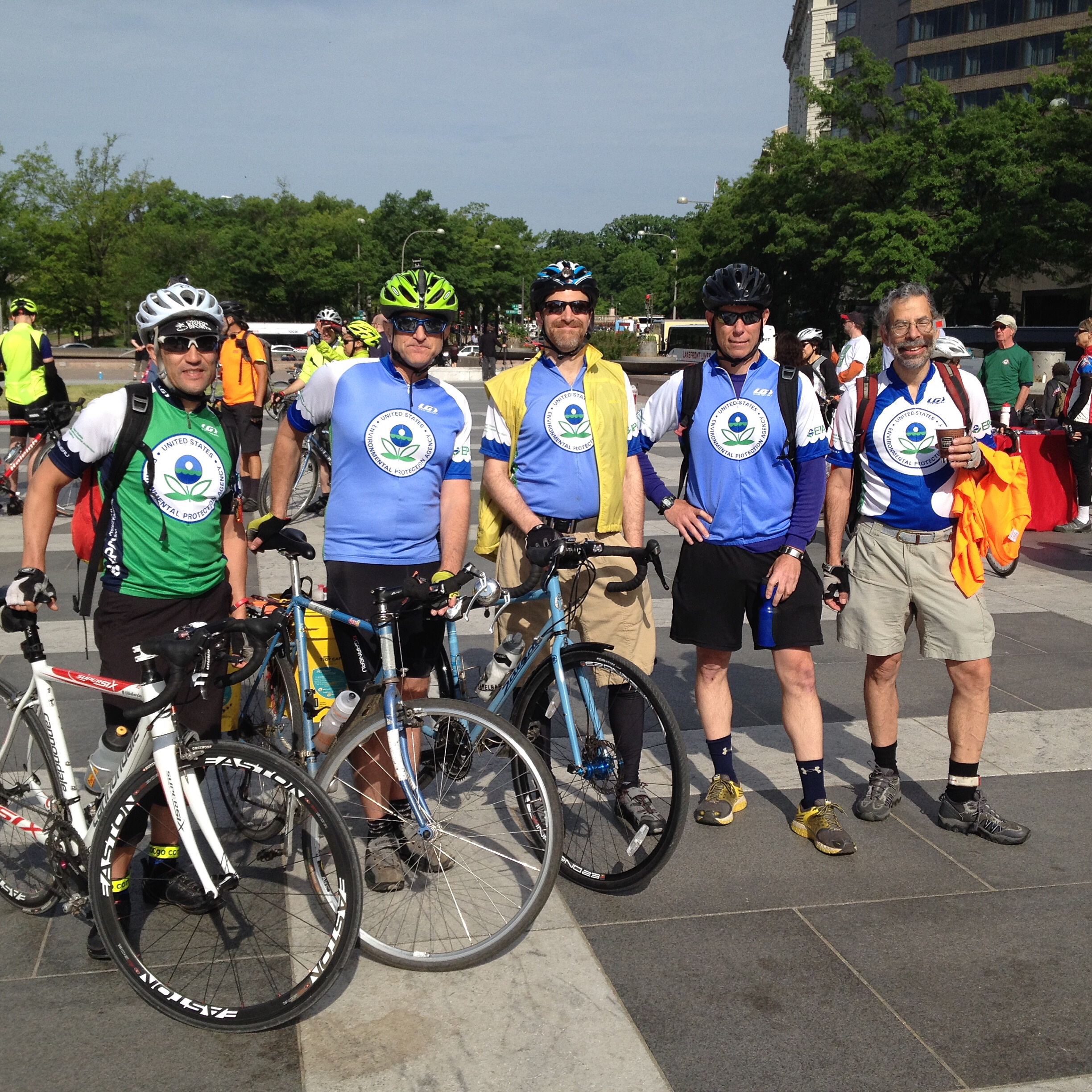 It’s #BikeToWorkDay! #EPAers arrive at Freedom Plaza in Washington, DC. Did you #BikeToWork today? Here’s why you should consider commuting on two wheels